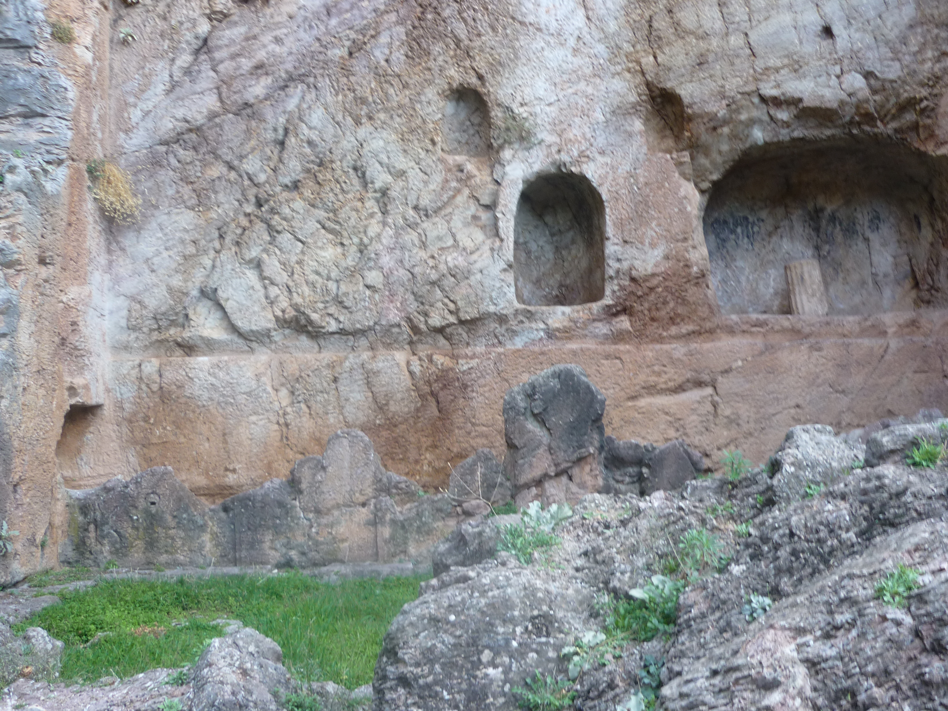 Roman Castalian spring at Delphi Greece